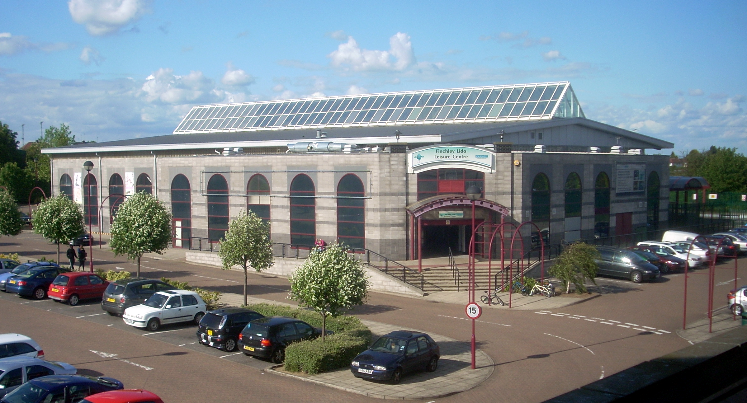 Modern swimming pool building at Finchley Lido.